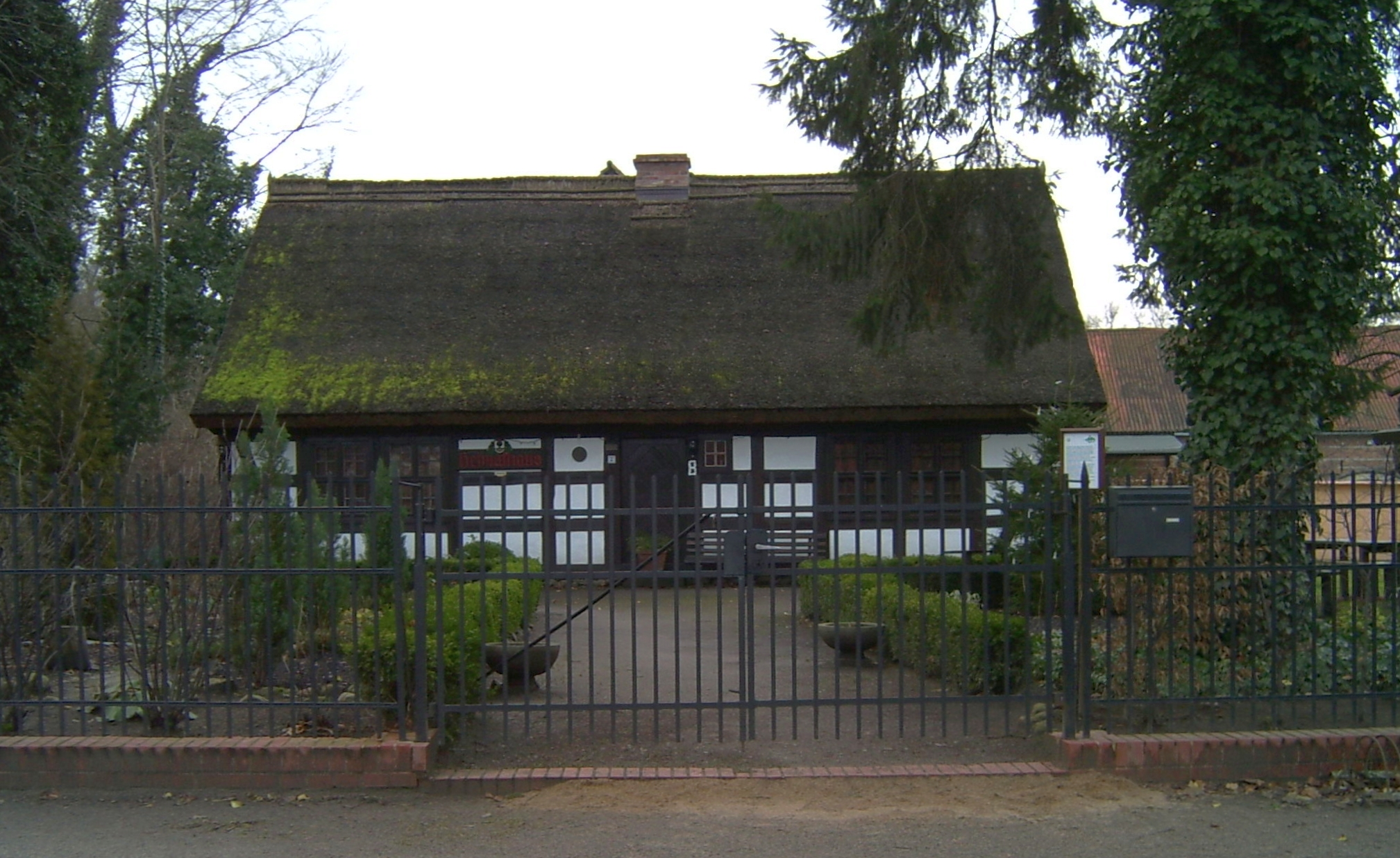 Schöneiche, Museum